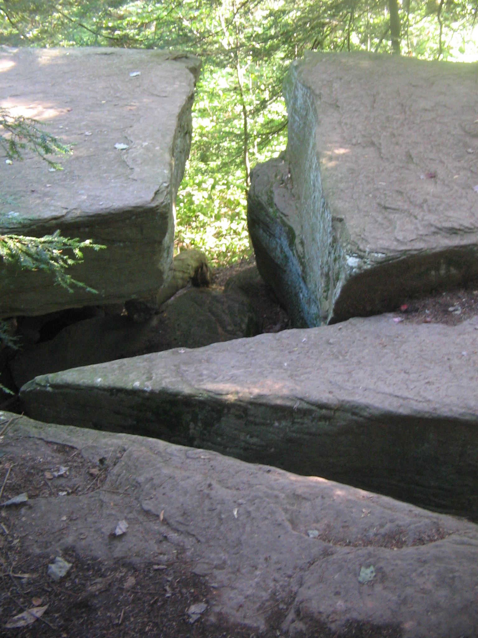 Pocono Formation rocks split by weathering, just off the Highland Trail at Ricketts Glen State Park, Luzerne County, Pennsylvania, USA.